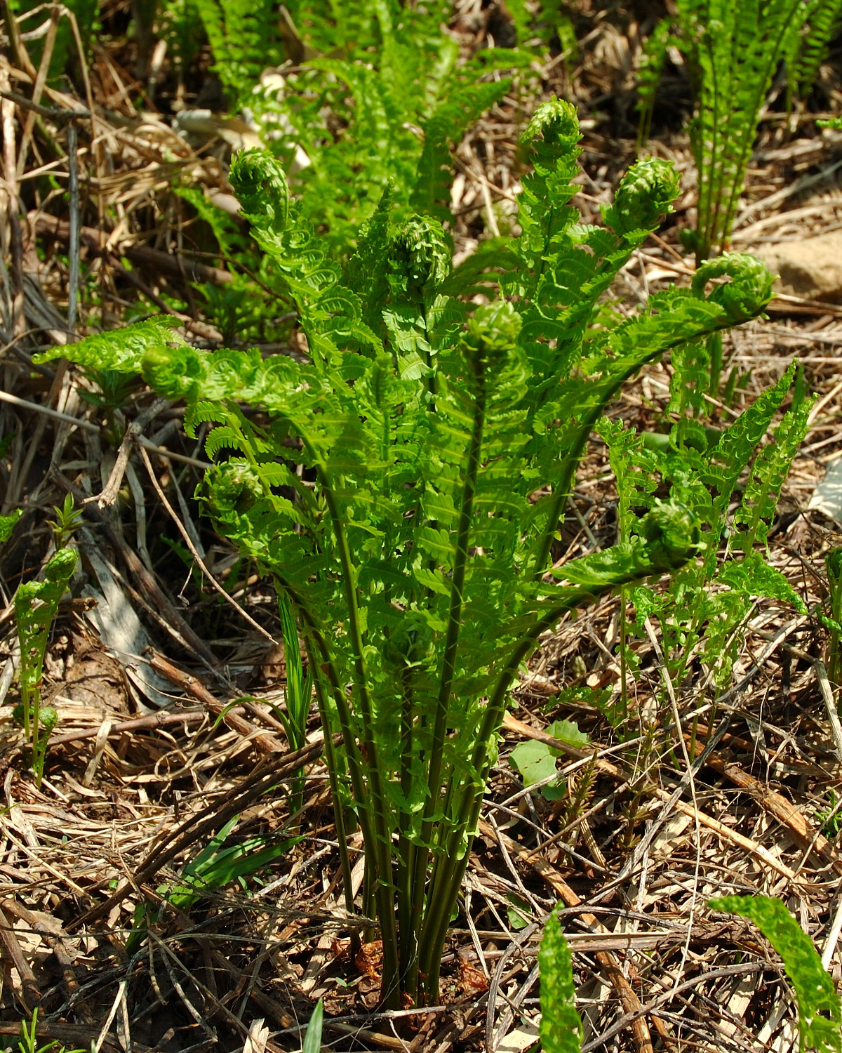 Matteuccia struthiopteris (コゴミ)